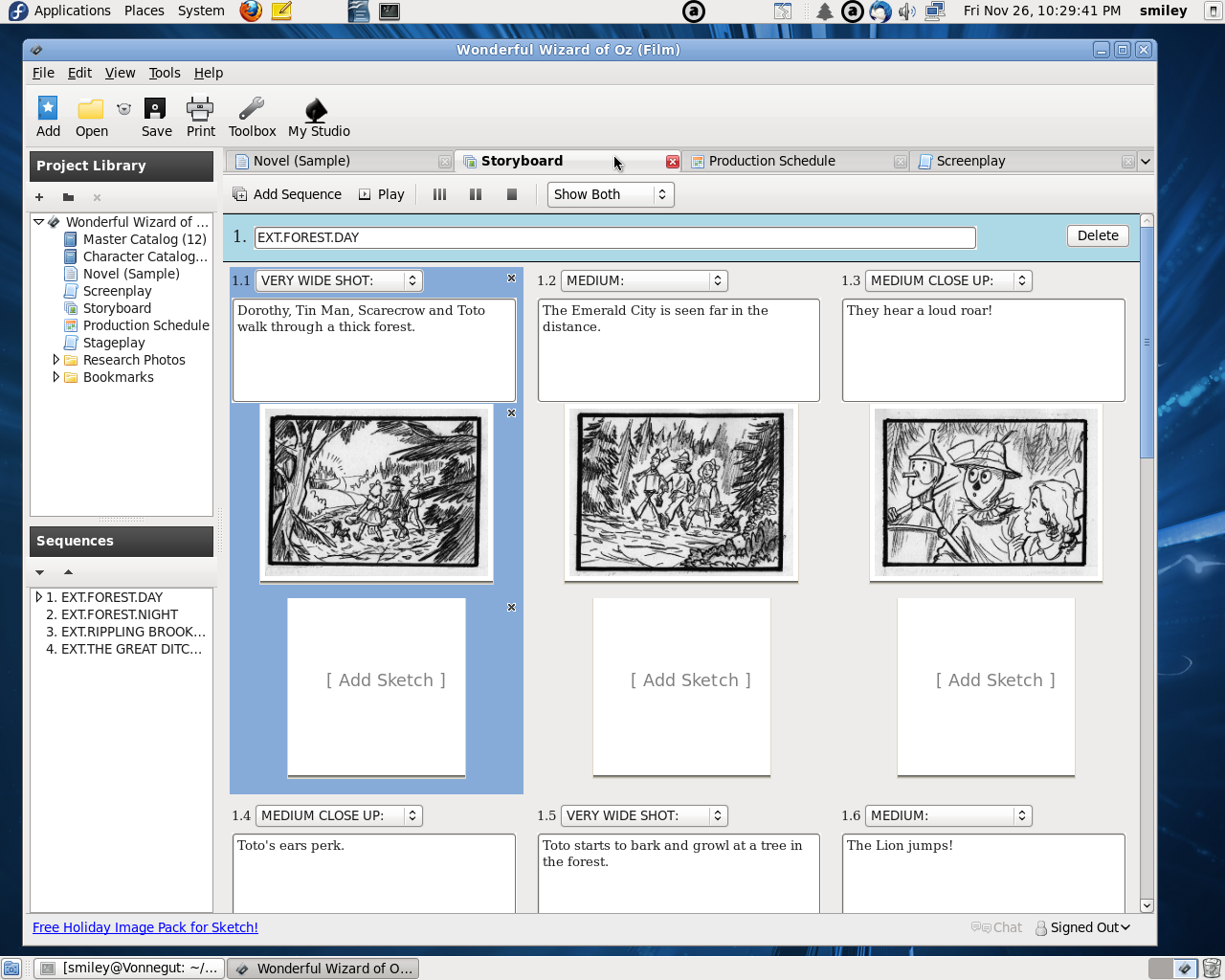 CeltX version 2.7 on a Fedora 14 desktop.